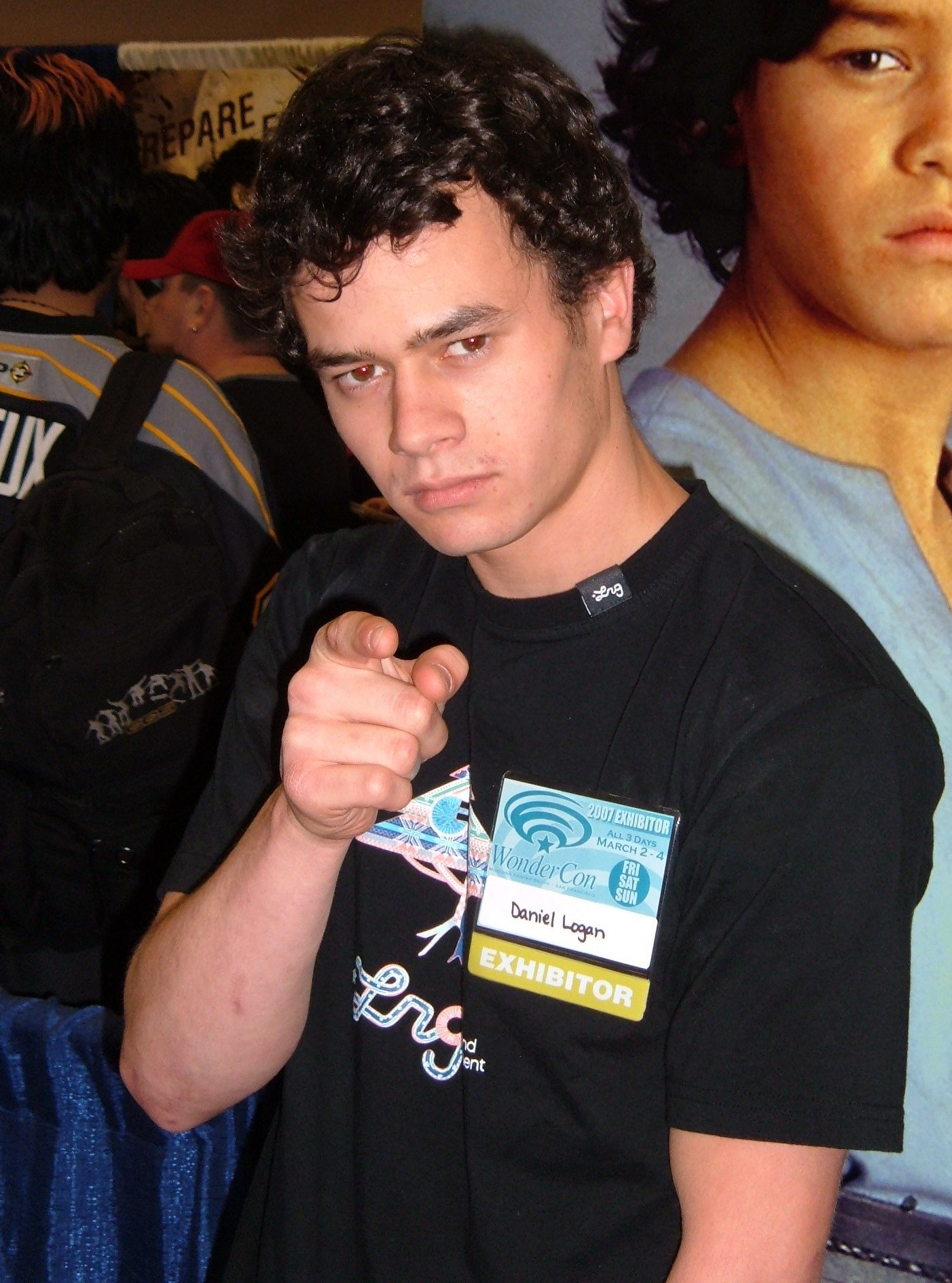 Actor Daniel Logan at WonderCon 2007 in San Francisco, California.